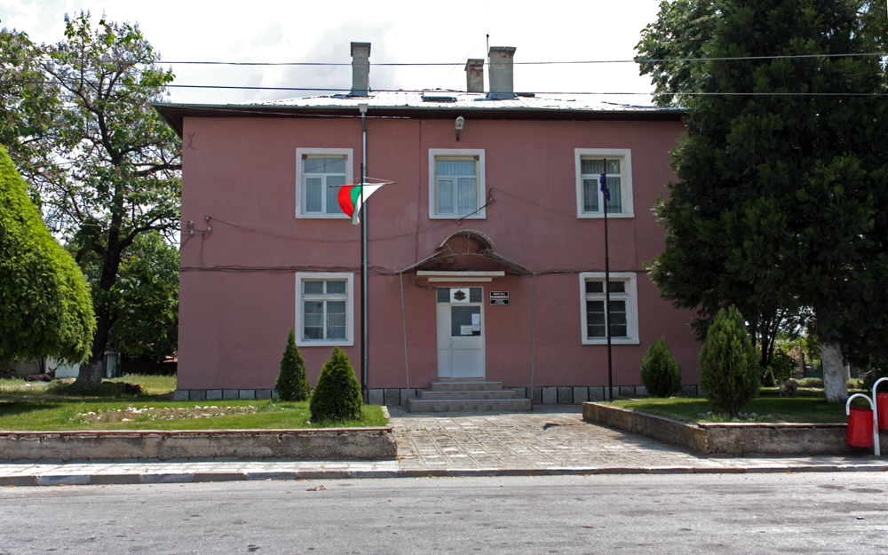 Gelemenovo municipality, Pazardzhik District, Bulgaria